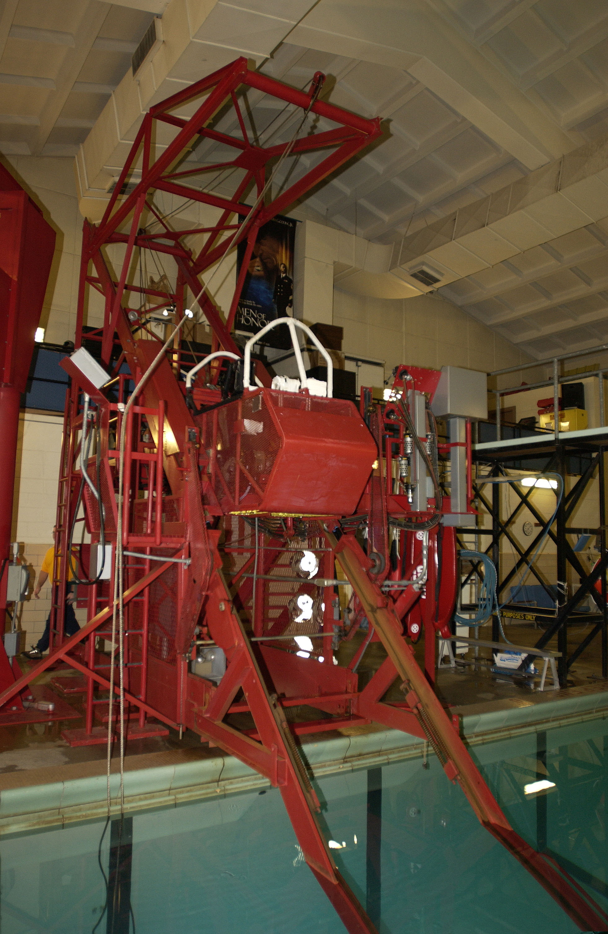 Oak Harbor, Wash. (Nov. 14, 2003) - Commanding Officer, Naval Air Station Whidbey Island, Capt. Stephen Black will be the last person in Naval Aviation history to ride the famous “Dilbert Dunker”. He was marked as the 8,333 person to ride dunker at Whidbey Island. The dunker was used to train new Naval Aviators on how to get out of their seat restraints in case they had to ditch their aircraft at sea, and will be replaced by a newer system. U.S. Navy photo by Photographer's Mate 2nd Class Michael B. W. Watkins (RELEASED)